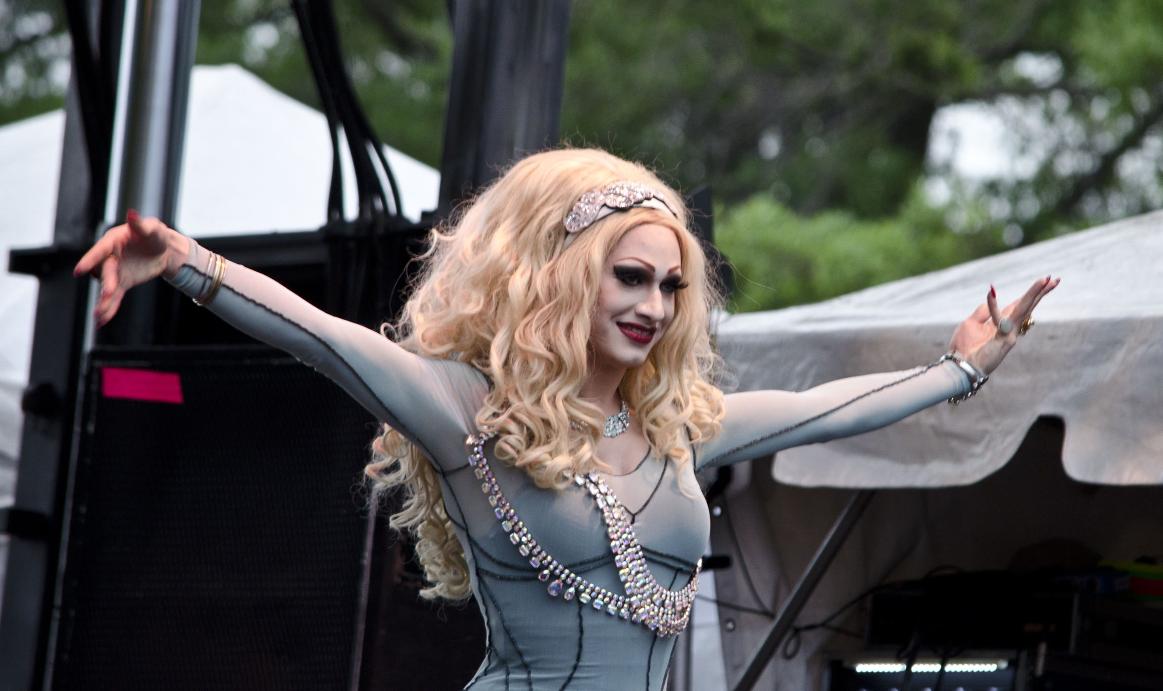 Jinkx Monsoon at Gay Pride in Washington D.C. in 2013